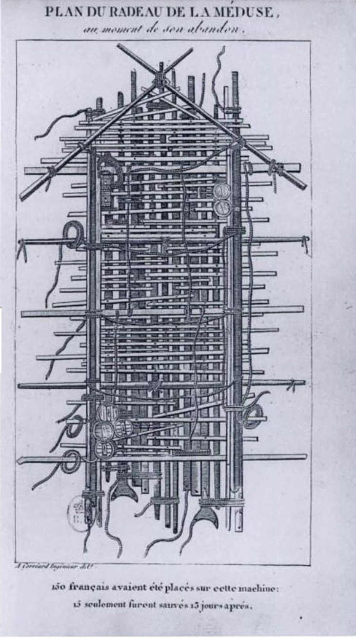 Plan of the Raft of the Medusa "at the point she was abandoned" - contemporary engraving; Frontispiece to Alexandre Corréard and Jean-Baptiste Savigny's Naufrage de la fragate Méduse (Paris, 1818); from the Bibliothèque Nationale, Paris